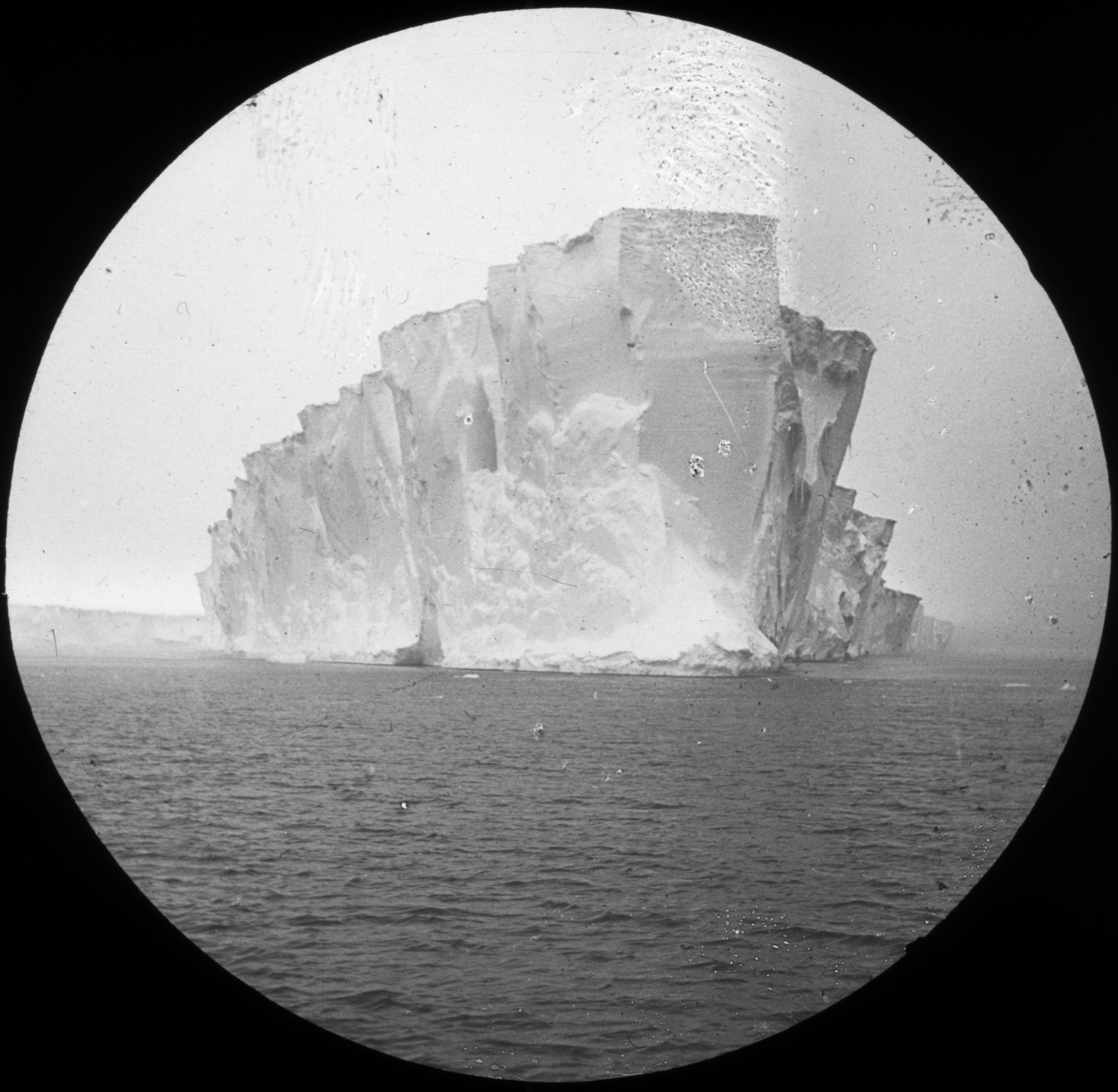 Photographs of the Nimrod Expedition (1907-09) to the Antarctic, led by Ernest Sheckleton